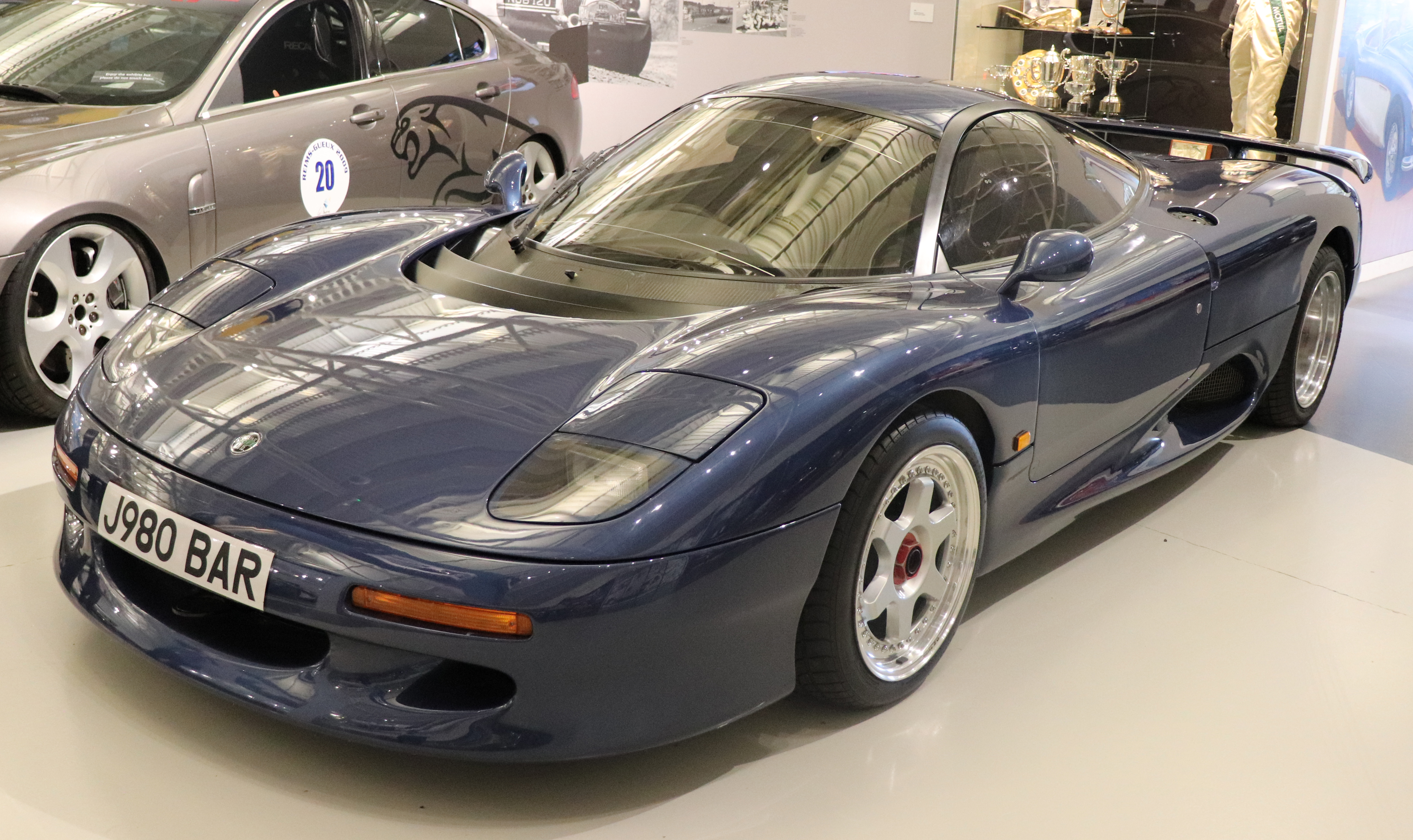 1991 Jaguar XJR-15 6.0 Taken at the British Motor Museum, Gaydon